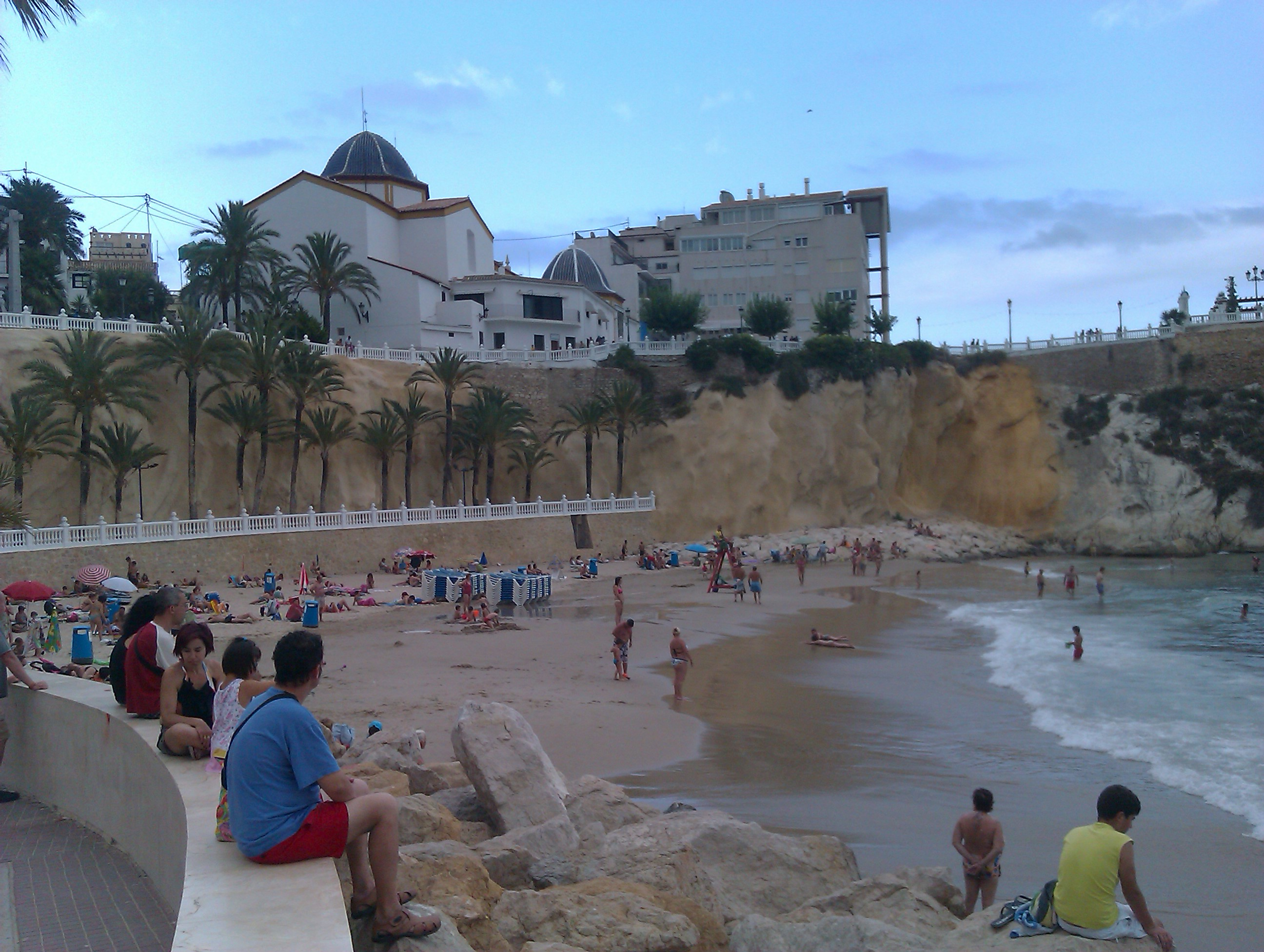 Mal Pas Beach - Benidorm